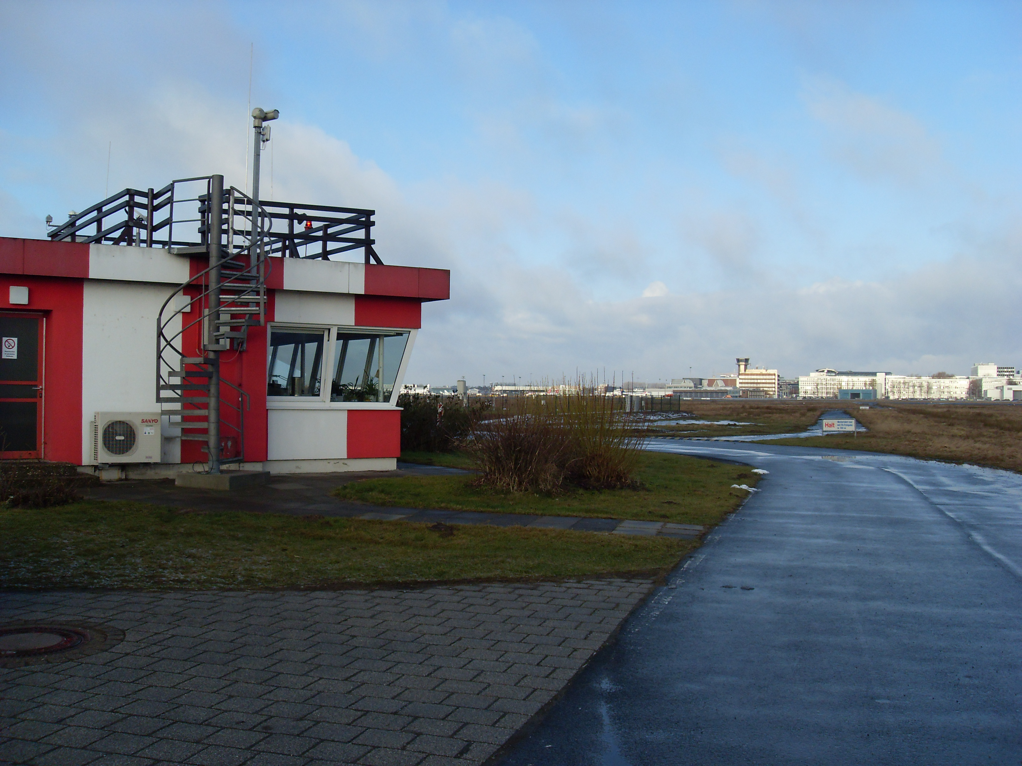 Meteorological office on the airport Bremen with the Terminals in the background.